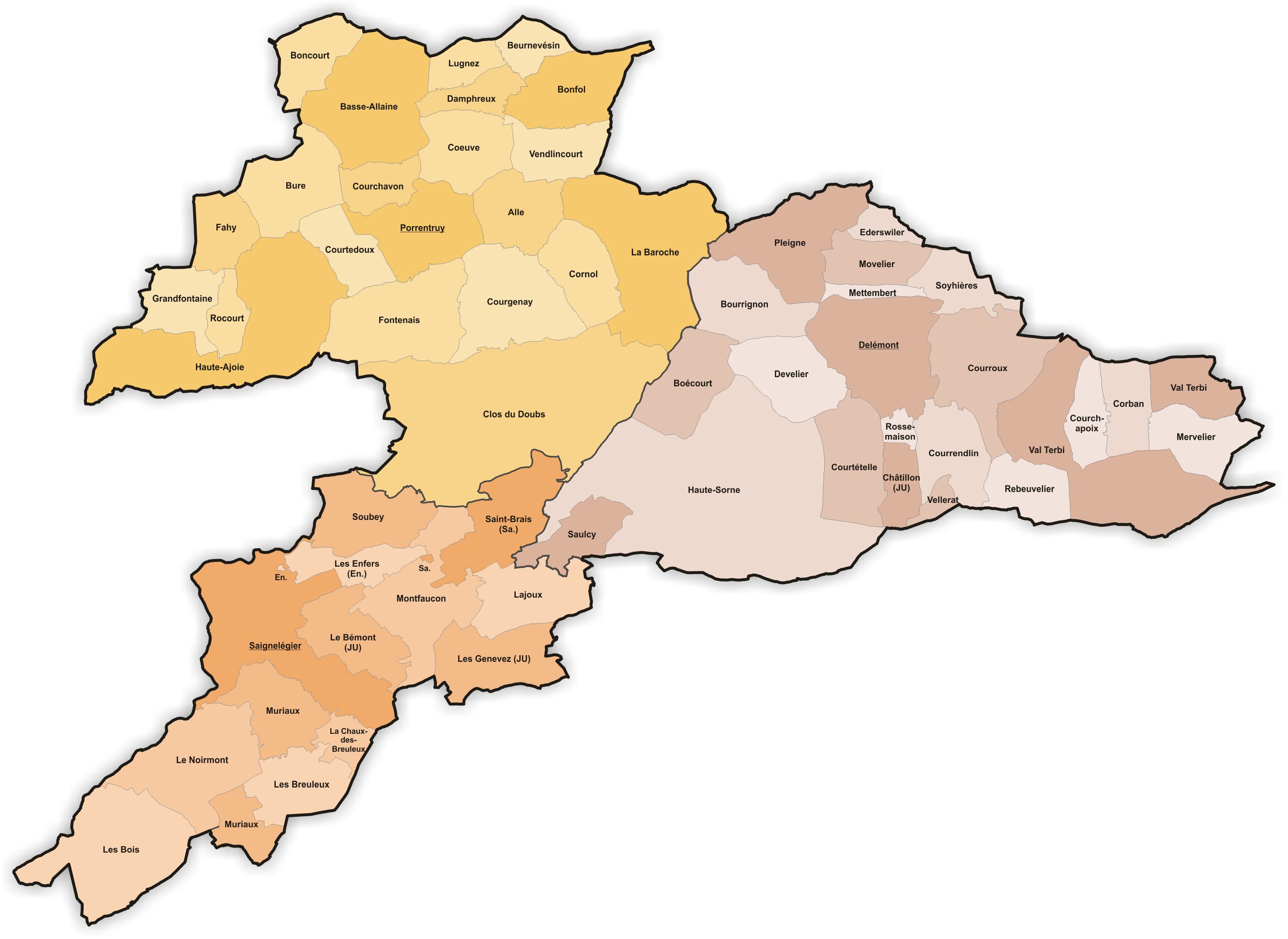 Municipalities in Canton Jura